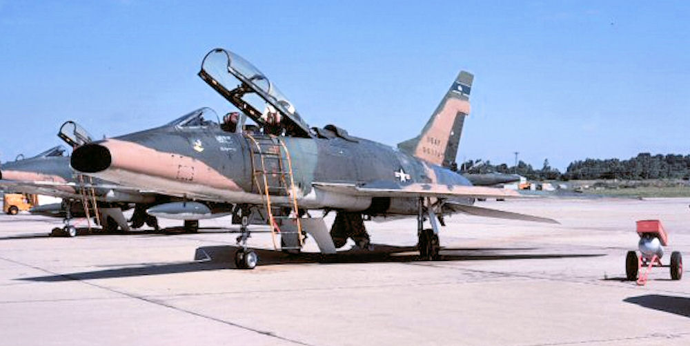 166th Tactical Fighter Squadron - North American F-100F-5-NA Super Sabre 56-3740. Aircraft was retired to MASDC Sep 24, 1979 as FE0600. Later Converted to QF-100F drone and expended as an aerial target